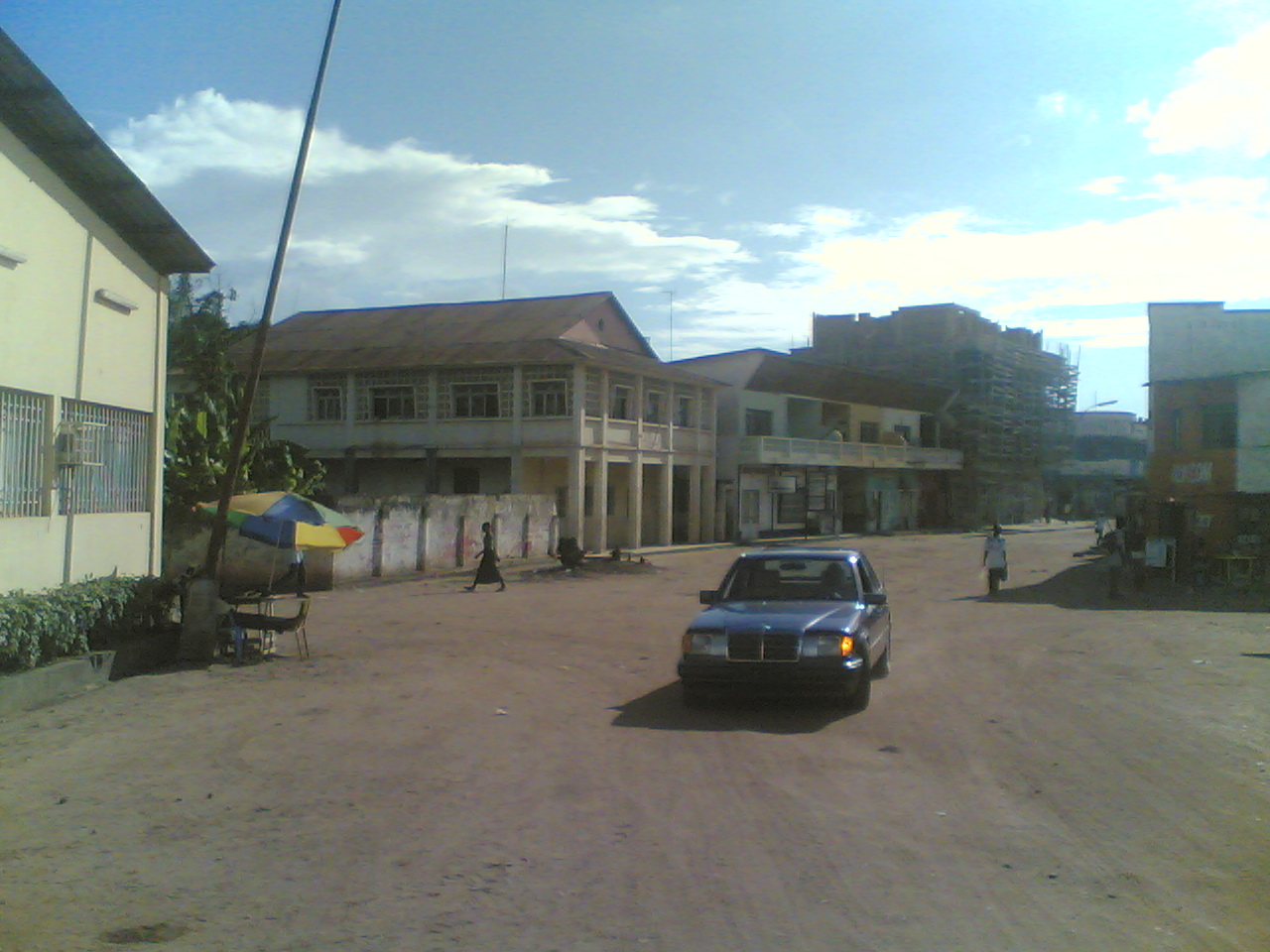 Boma city centre